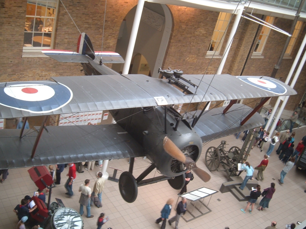 A true full blooded fighter at last. Although it was tricky to fly it was a deadly opponent and could turn to the left like lightning. To the right like a cart horse. This problem was caused by the whirling mass of the rotary engine. See also : File:SopwithCamelTopsideIWM2006.jpg view from above rear File:Lewis Gun Camel.jpg : top wing from right side File:Sopwith Camel at the Imperial War Museum.jpg view from left side